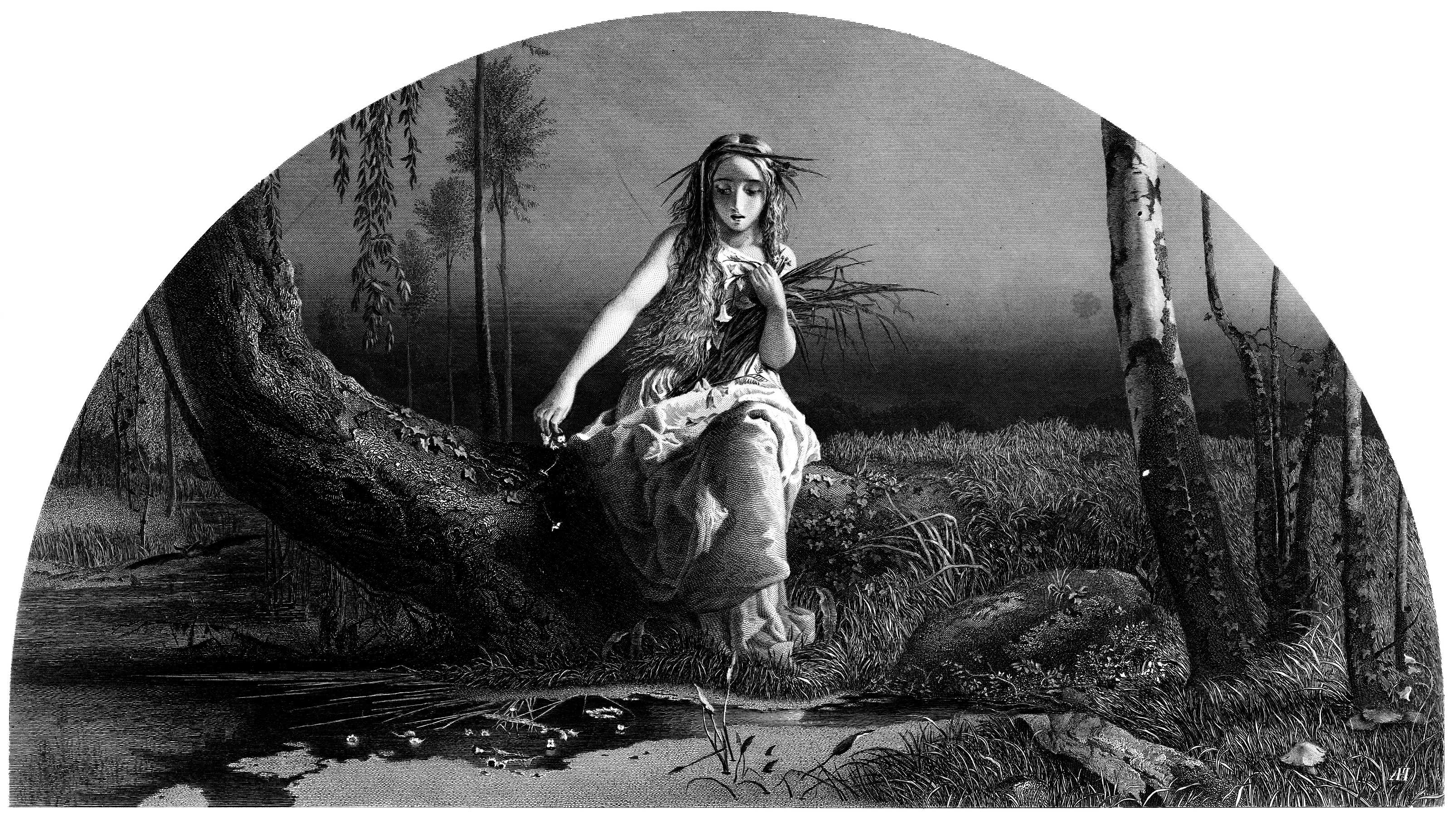 Ophelia